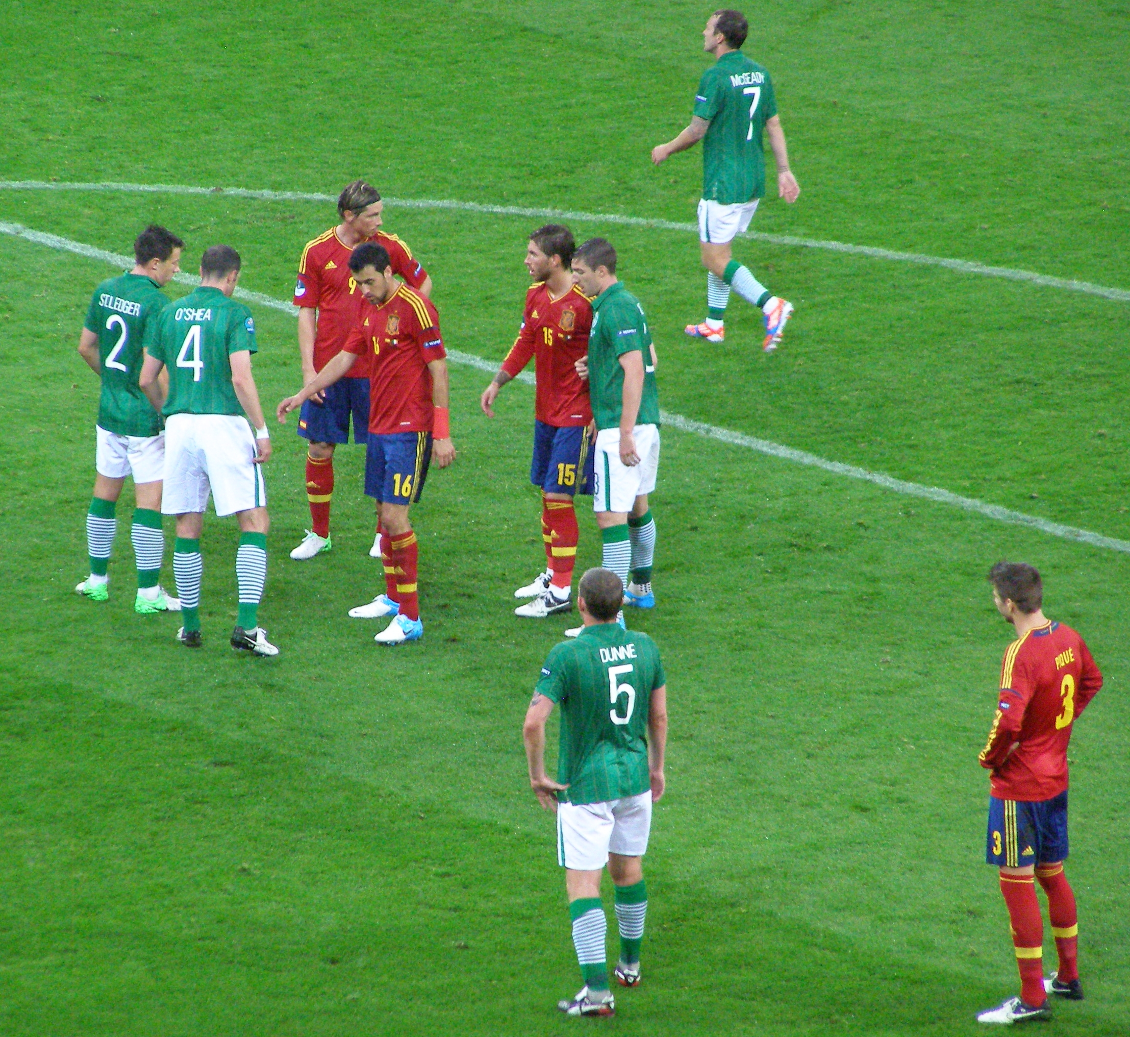 Gdańsk - PGE Arena - Euro 2012 - Group C match Spain - Rep. of Ireland